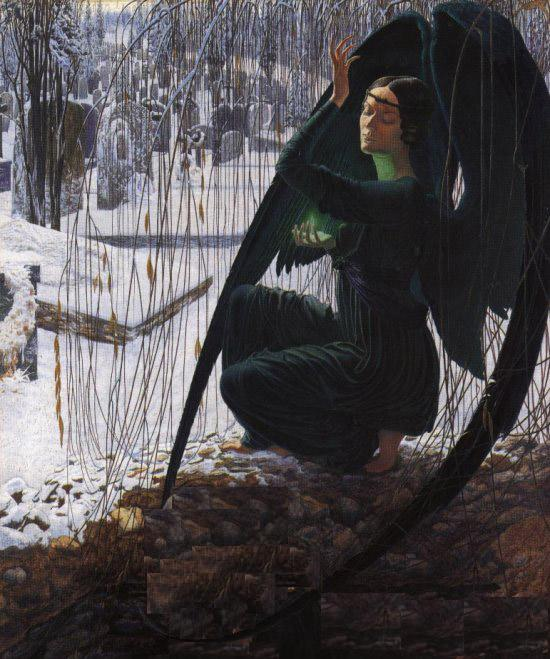 Altona (Germany)